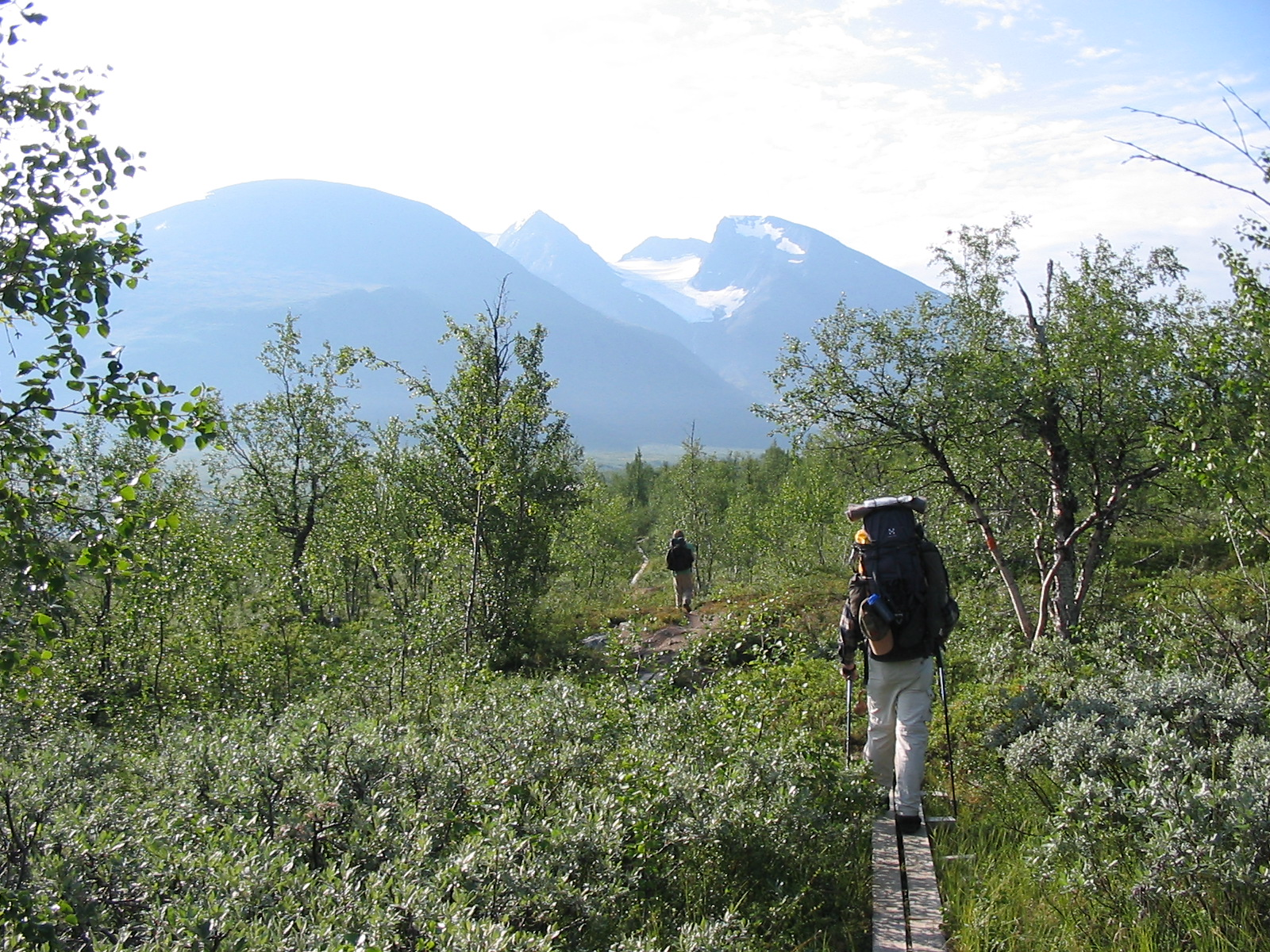 Hiking on the Padjelantaleden trail in northern Sweden, showing the Ahkka massif in the background